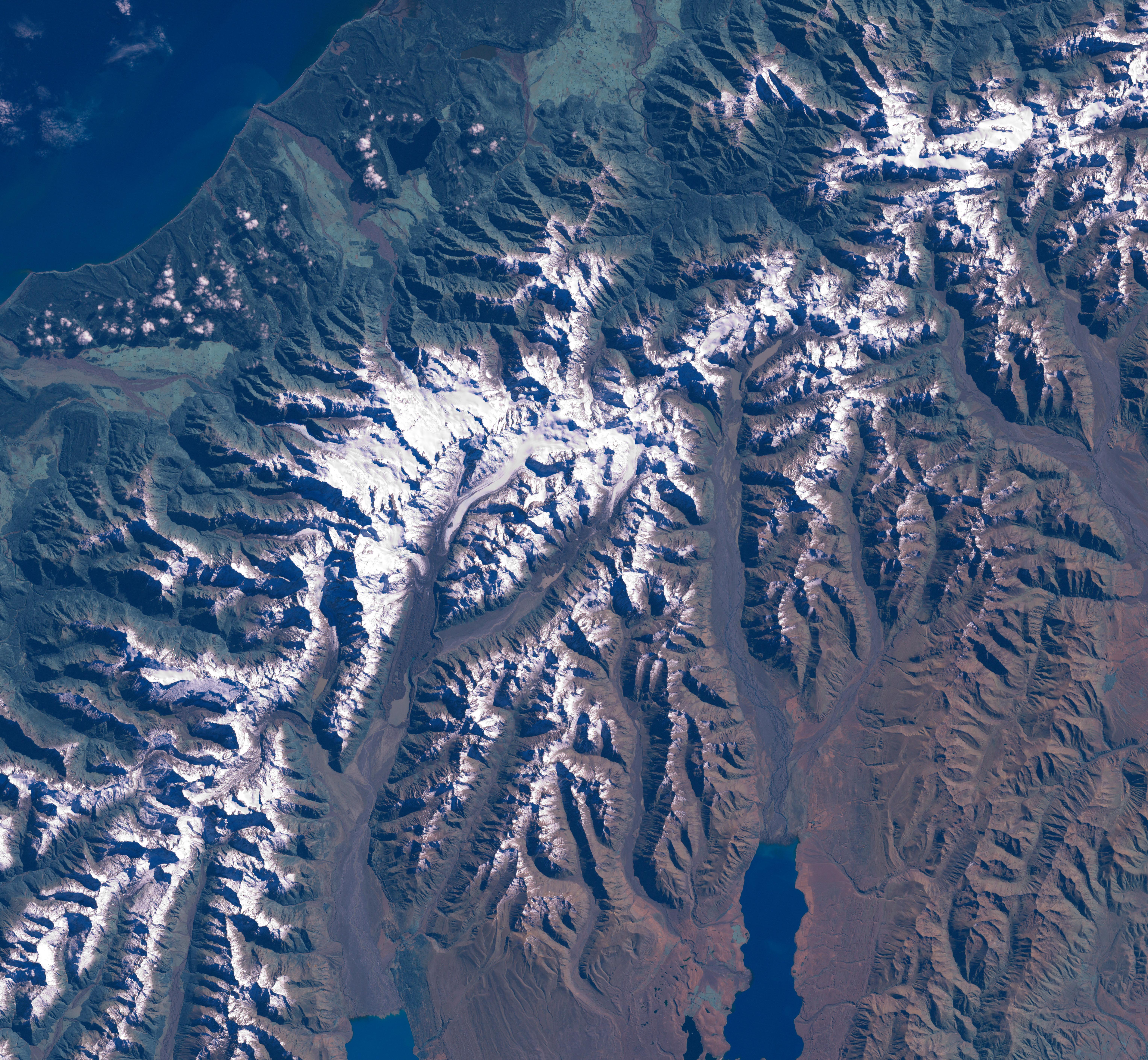 The Aoraki/Mount Cook area from LandSat. This image was acquired by Landsat 7's Enhanced Thematic Mapper plus (ETM ) sensor on March 31, 2001. This is a true-color image made using red, green, and blue wavelengths (ETM bands 3, 2, and 1). The image has also been pan-sharpened to heighten the details and resolution.